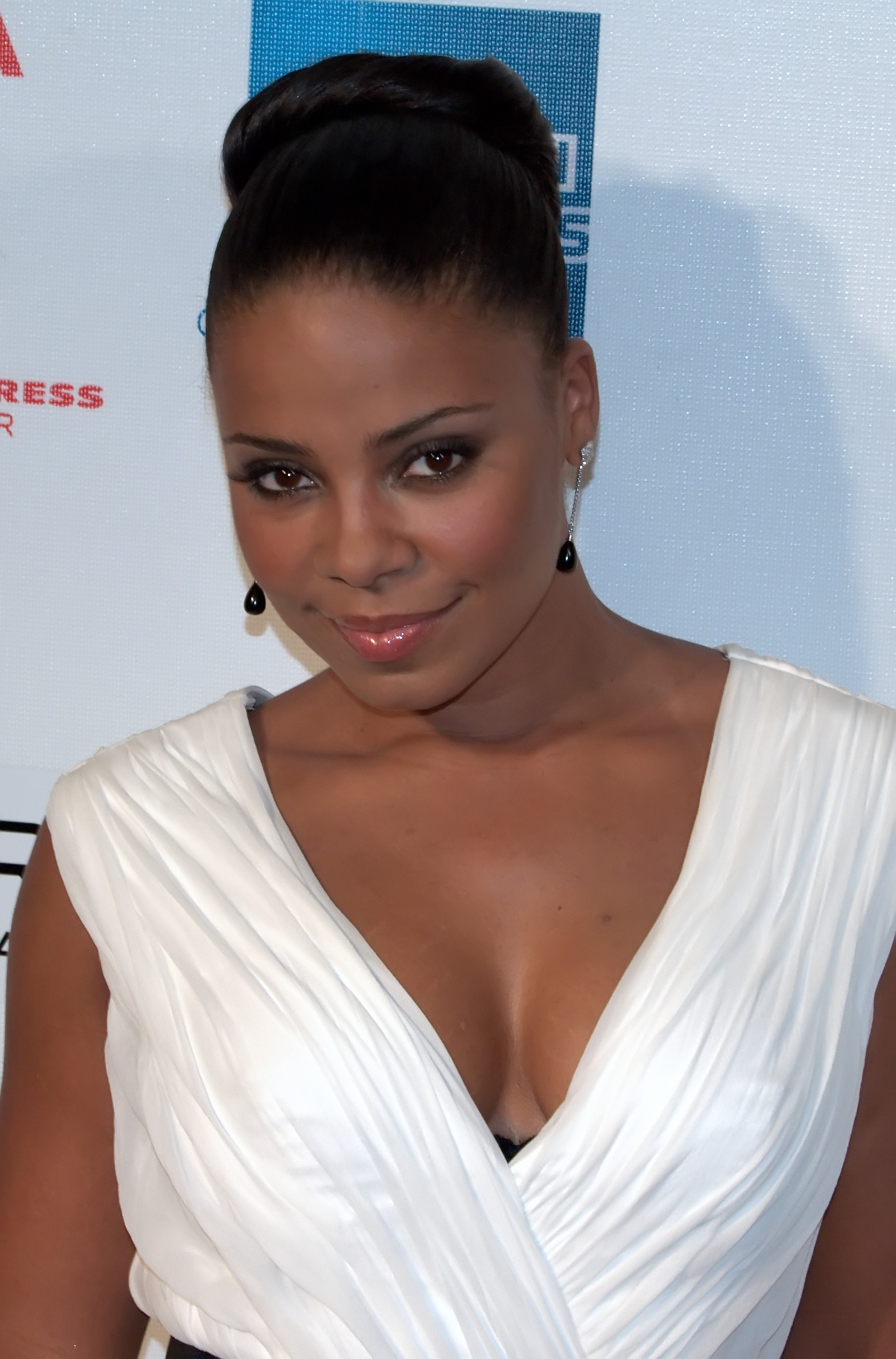 Sanaa Lathan at the 2009 Tribeca Film Festival premiere of Wonderful World. Photographers blog post about the event and this photo.